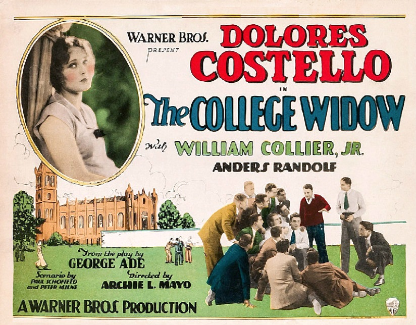 Lobby card from the American film The College Widow (1927). Note original card had a lot of handwritten identifications written on it and some tears and stains. There are no copyright marks as can be seen at the links. At bottom right is Country of origin USA (written in border).